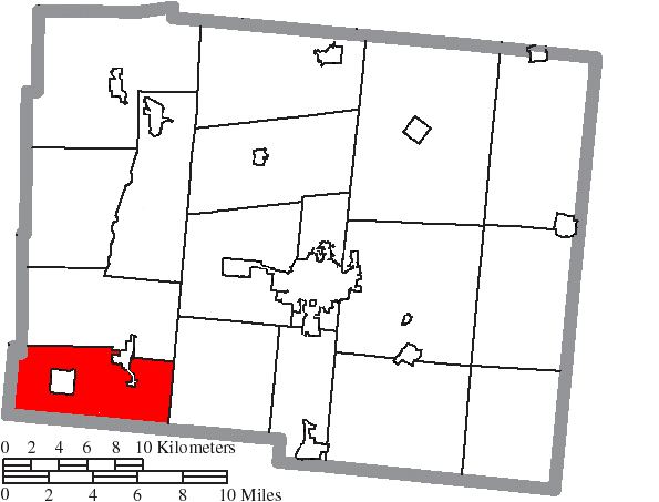 Map of the municipal and township boundaries of Logan County, Ohio, United States, as of the 2000 census, with the location of Miami Township highlighted. Township borders are shown only in unincorporated areas in order to differentiate incorporated and unincorporated areas more clearly.